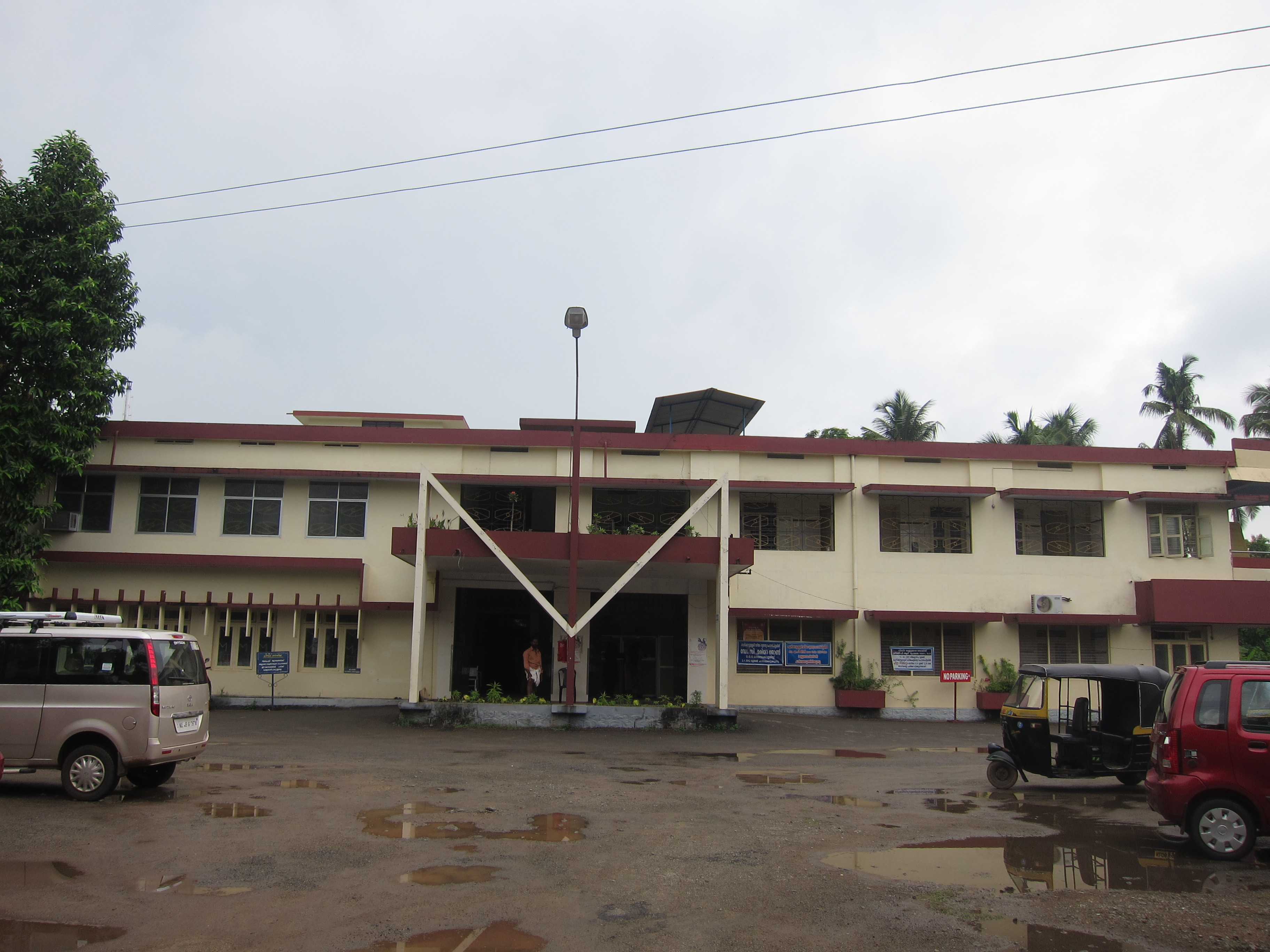 Kundai - Mariam Thresia Hospital, kuzhikkattussery, Thrissur District കുണ്ടായി മറിയം ത്രേസ്യ ആശുപത്രി, കുഴിക്കാട്ടുശ്ശേരി